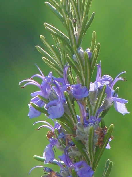 Rosemary Rosmarinus officinalis Lamiaceae (Labiatae) Flowers from a shrub I planted by my kitchen door five years ago in El Cajon, California, USA. Photo taken 8 March 2006 by D.-R. D. Luria